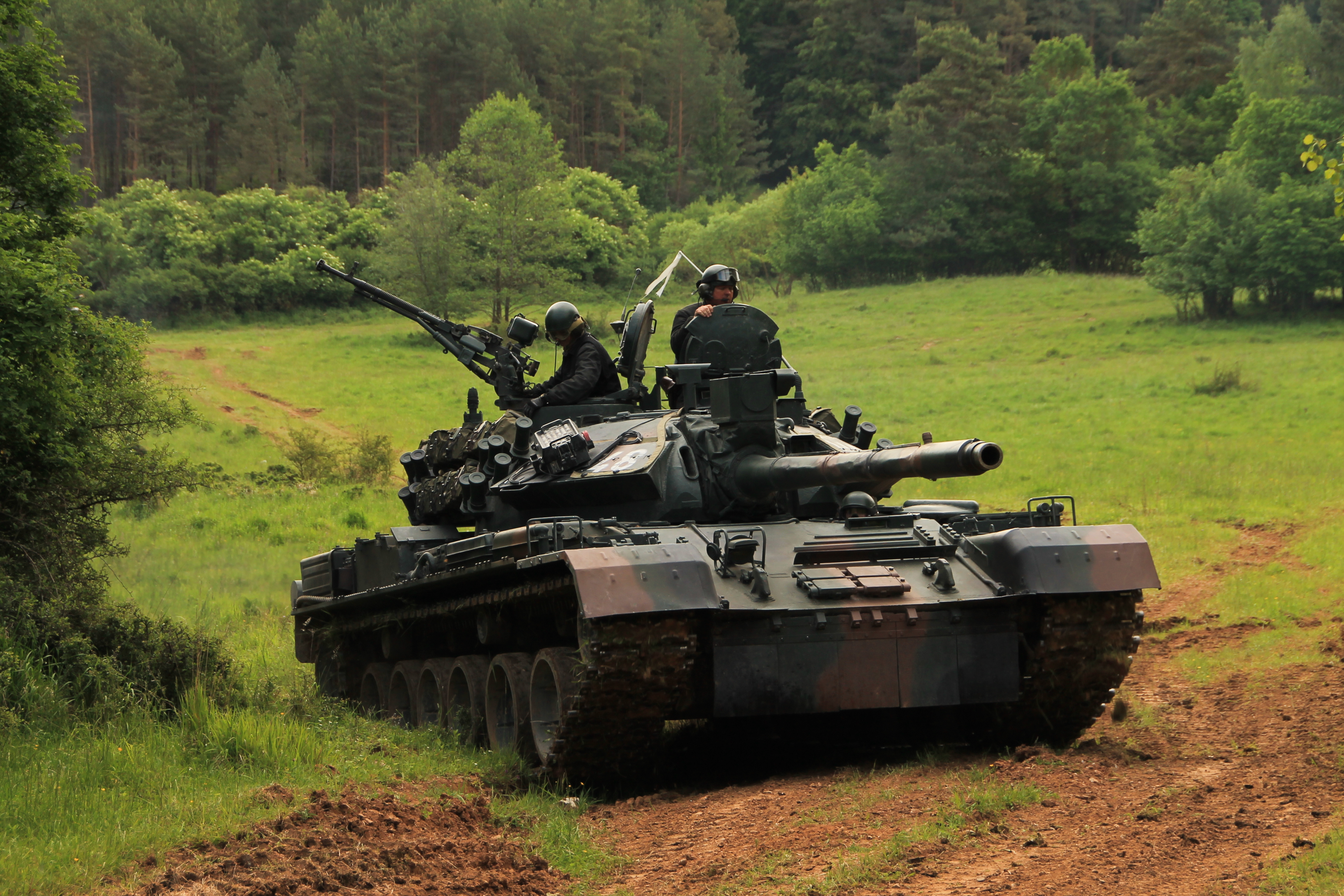 Romanian armored vehicles go on the offensive during Combined Resolve II at the Hohenfels Training Area, May 26, 2014. Combined Resolve II is a U.S. Army Europe-directed multinational exercise at the Grafenwoehr and Hohenfels Training Areas, including more than 4,000 participants from 15 allied and partner countries. The exercise features the European Rotational Force, a combined arms battalion of the 1st Brigade Combat Team, 1st Cavalry Division, the U.S. Army’s Regionally-Aligned rotational brigade combat team, that supports the U.S. European Command for training and contingency missions. For more photos, videos and stories from Combined Resolve II, check out (Photo courtesy of Romanian Land Forces)